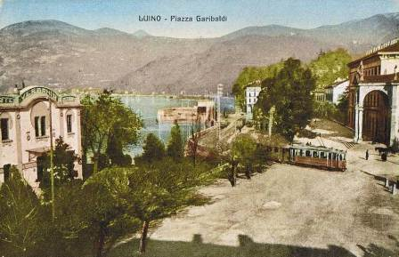 Luino 1915 with train